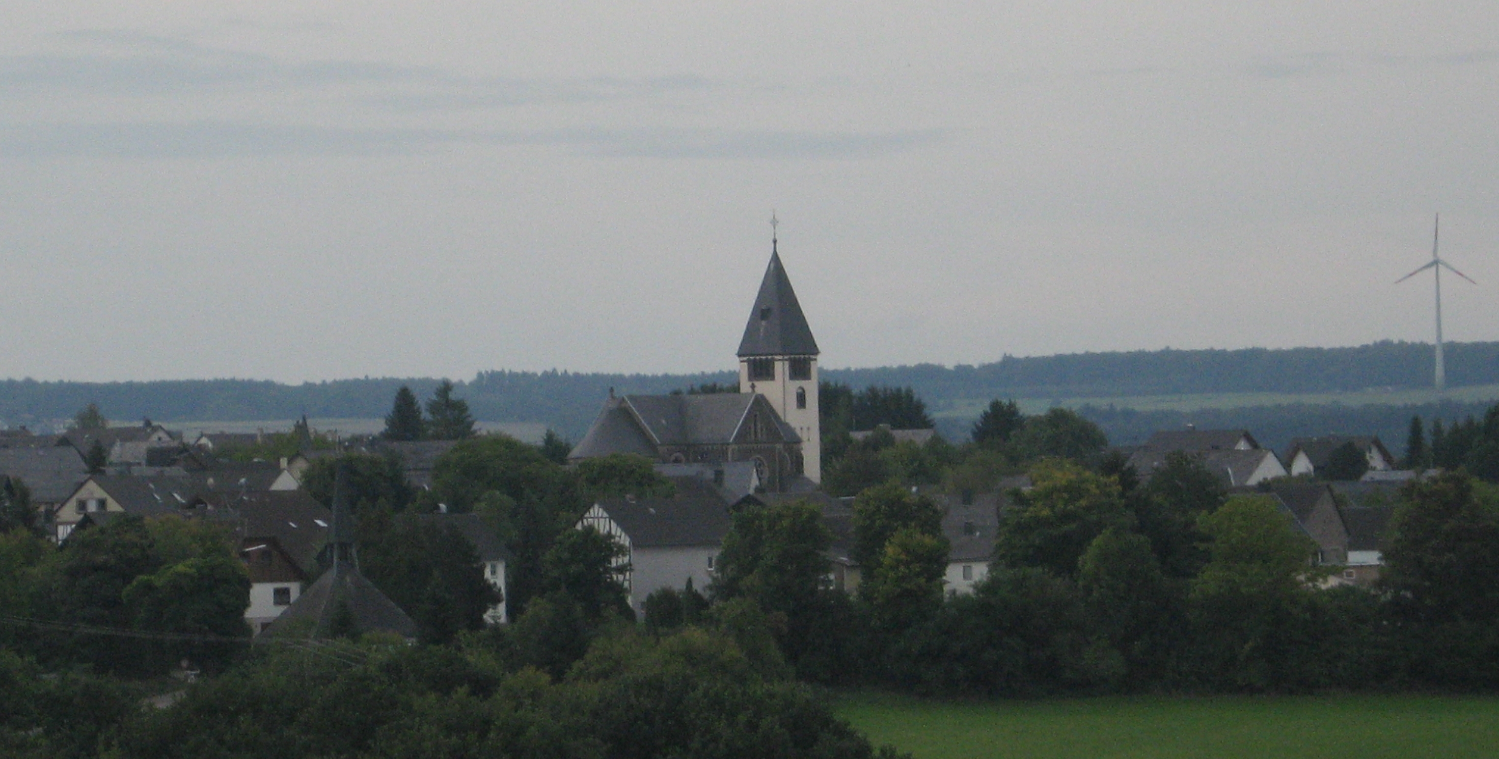 Village Buch in the Hunsrück landscape, Germany.